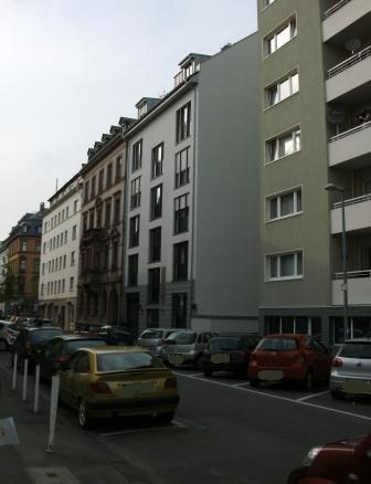 Dominican order monastery in Mainz-Neustadt, Rhineland-Palatinate, Germany